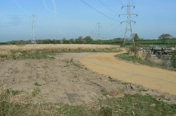 Ribble Link Mill Field Lock 8